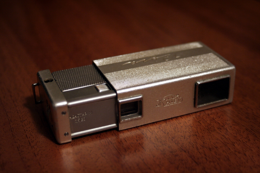 "Kiev-Vega" compact photo camera.